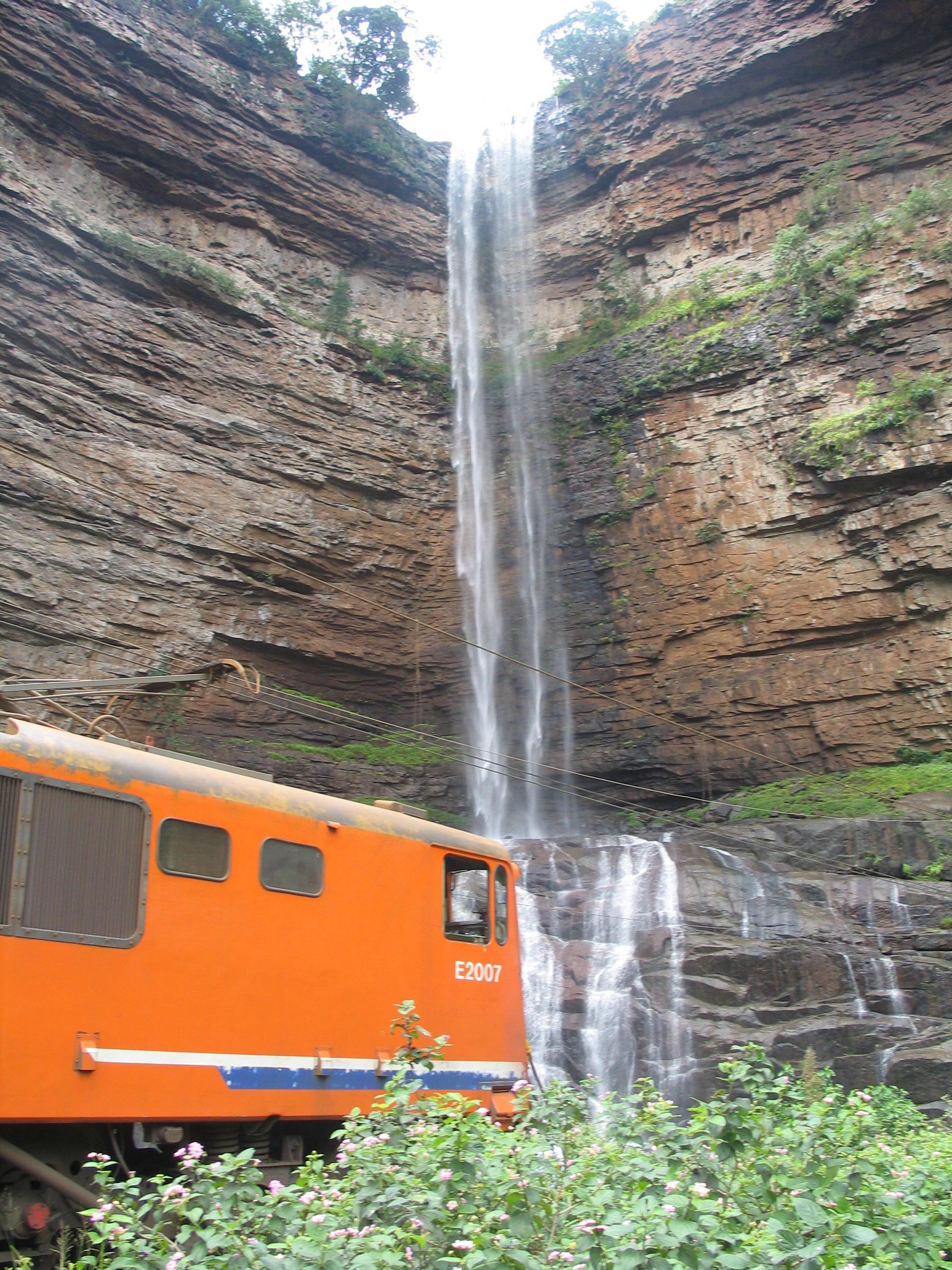 SAR Class 6E1 Series 9 E2007, passing waterfall Location: Pietermaritzburg-Hammarsdale line, Kwa-Zulu Natal Rebuilding: In 2005 E2007 was withdrawn from service and rebuilt to Class 18E 18-236